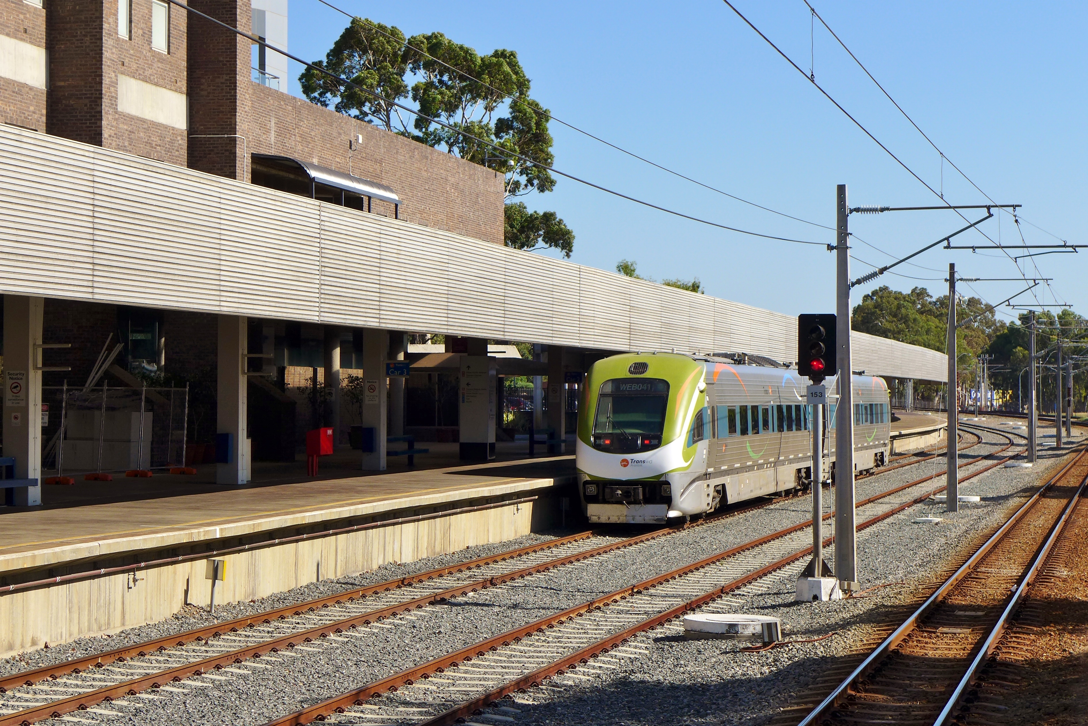 The MerredinLink, a Transwa train service from East Perth to Merredin, Western Australia, and return, awaits departure from East Perth. Since December 2014, this service has operated weekly.